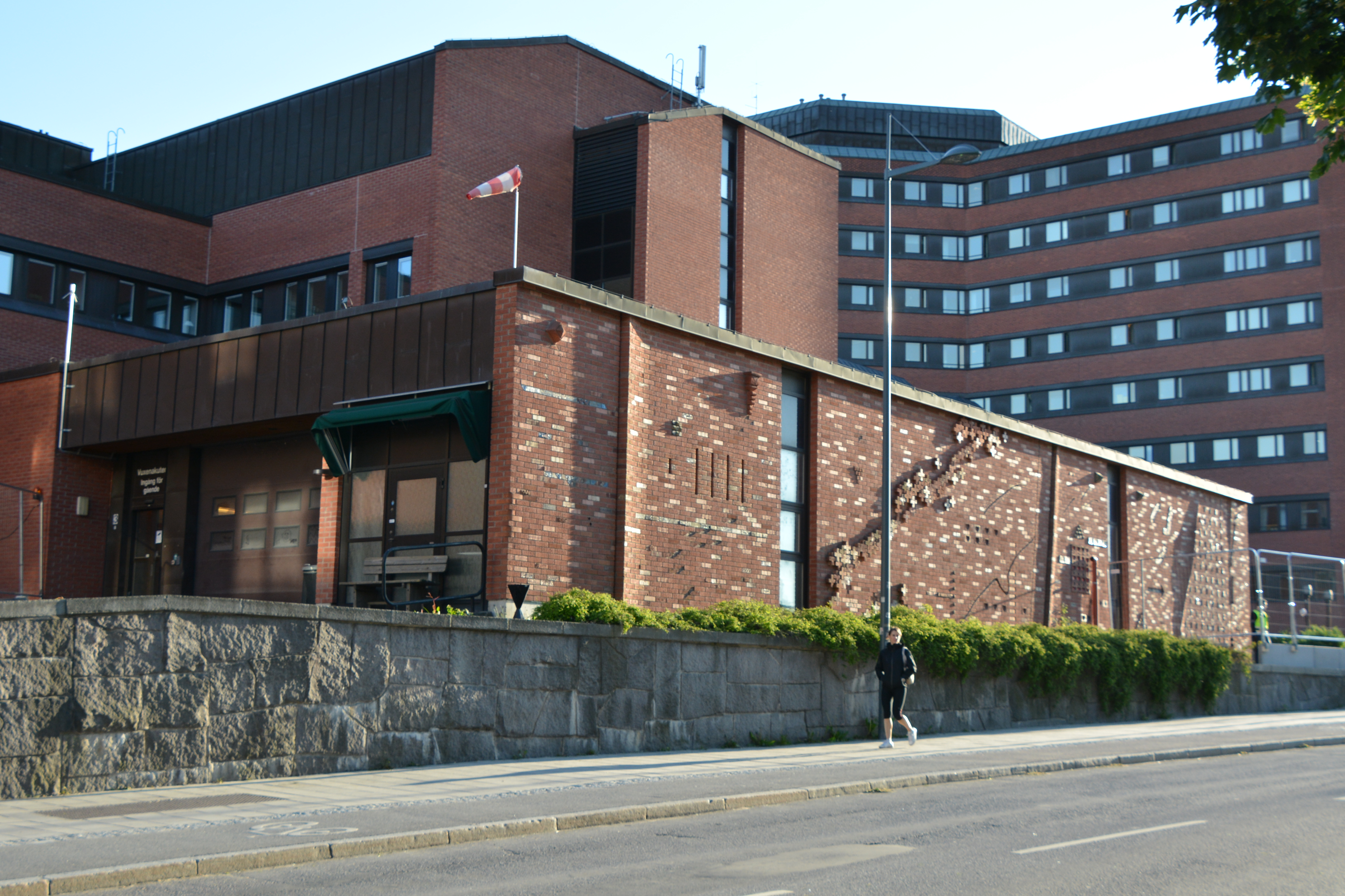 Lillemor Peterssons Stentecken, Sankt Görans sjukhus i Stockholm